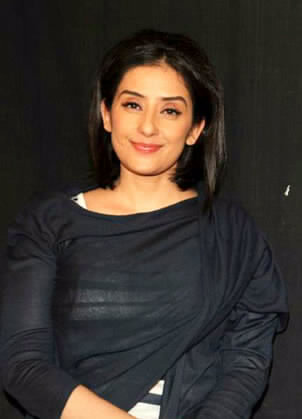 Manisha Koirala, Ram Gopal Varma at press meet of 'Bhoot Returns'